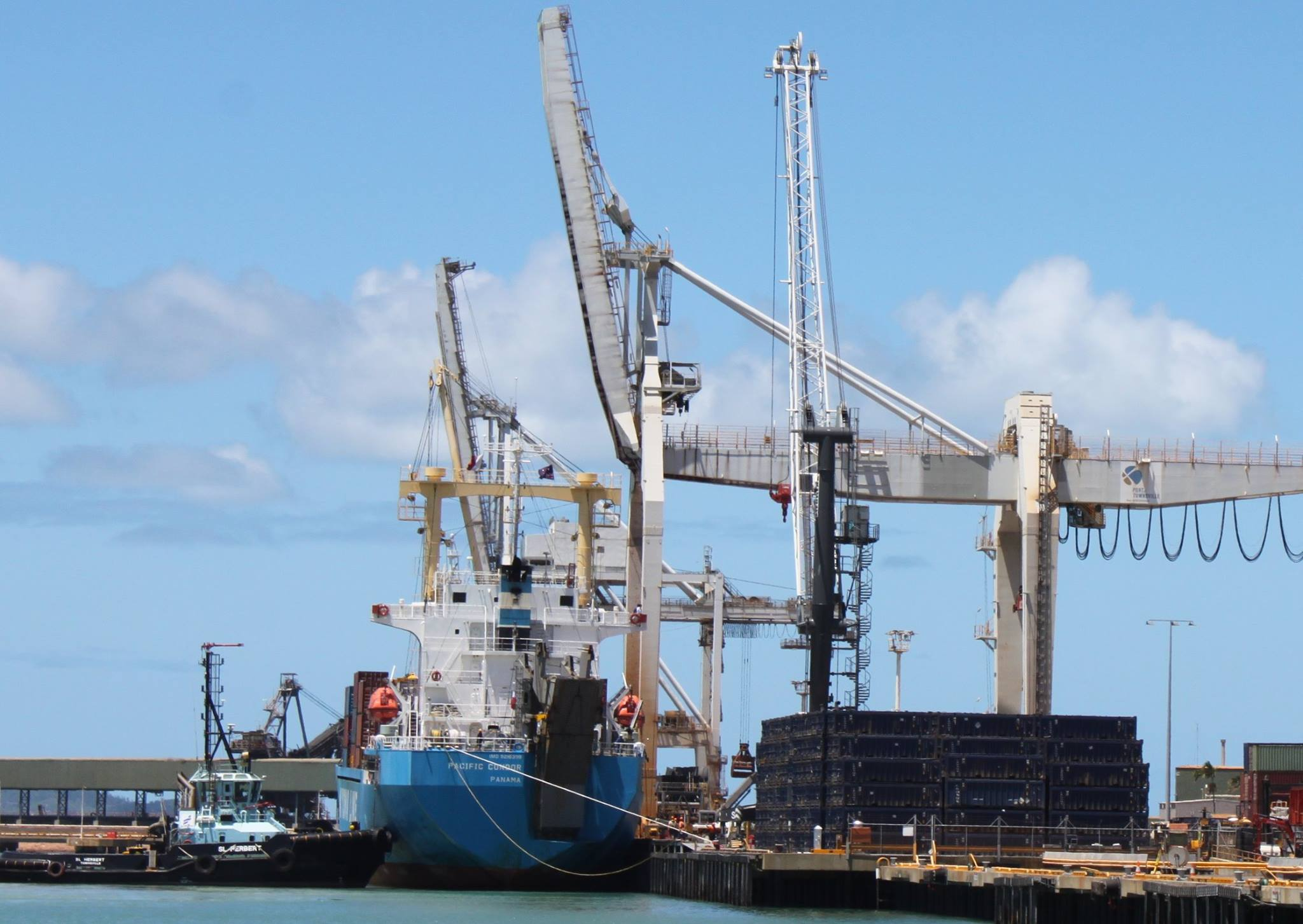 Berth 3